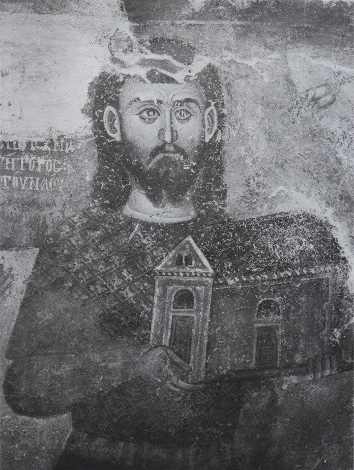 Tepčija Gradislav, Treskavac Monastery